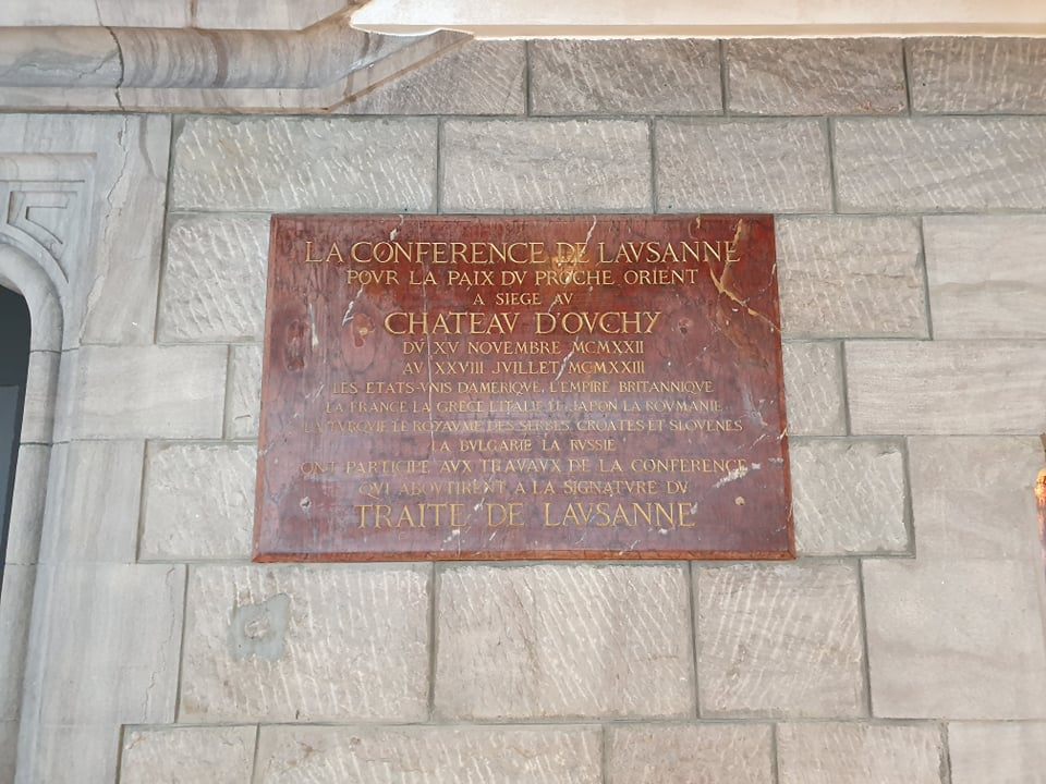 The plaque is on the wall at the luxury hotel Château d'Ouchy at the lobby (bar and cafe) of the hotel as you enter the hotel. کوردی: تابلۆکە بە دیواری ئوتێلی ڕاقی شاتۆ دو ئوشی لە لۆبیەکە کە بار و کافتریایە هەڵواسراوە و لە چوونە ژوورەوەی ئوتێلەکە ئەتوانی بیبینیت.